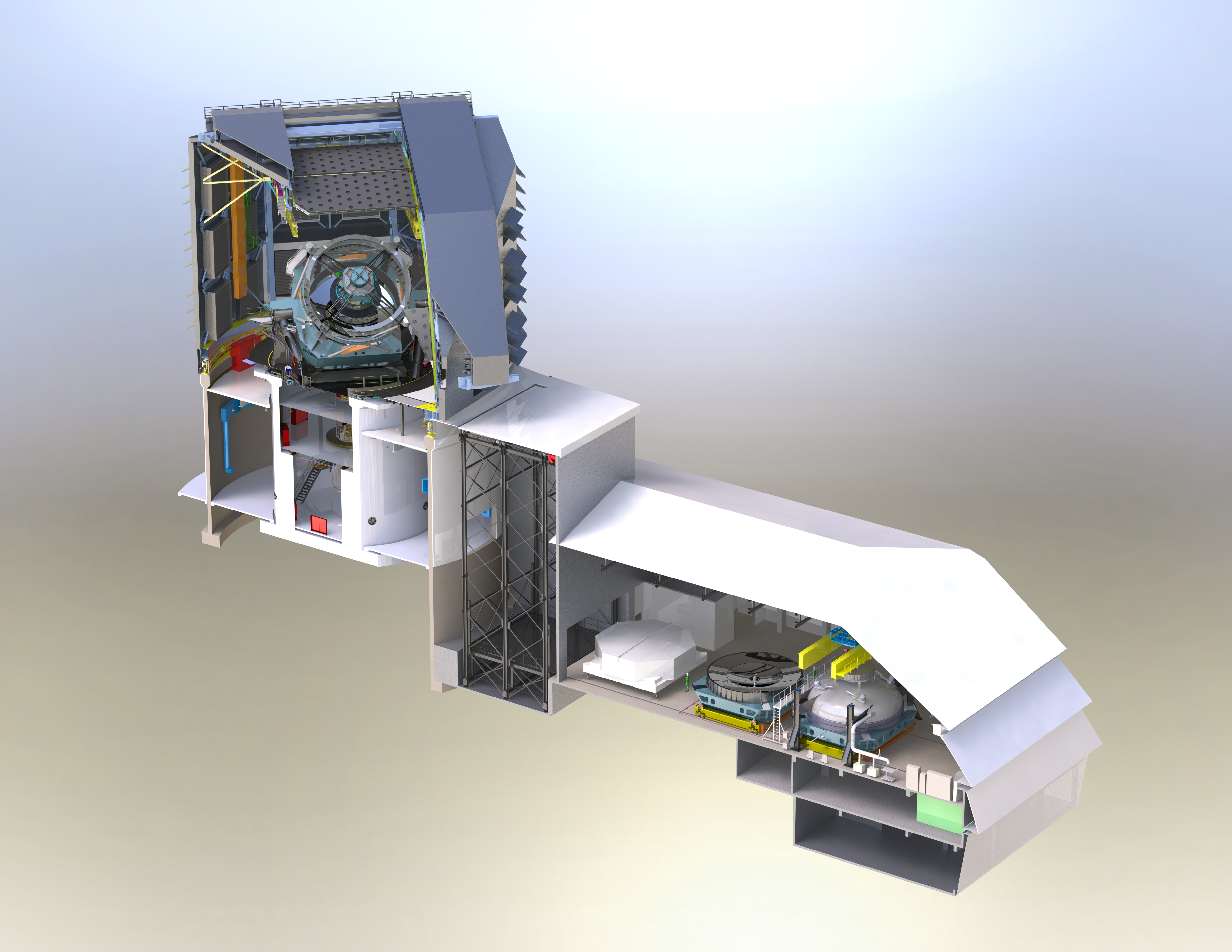 Super detailed, high resolution cut-away render of the telescope model showing the inner workings. Zoom in on this one; it's worth a closer look.